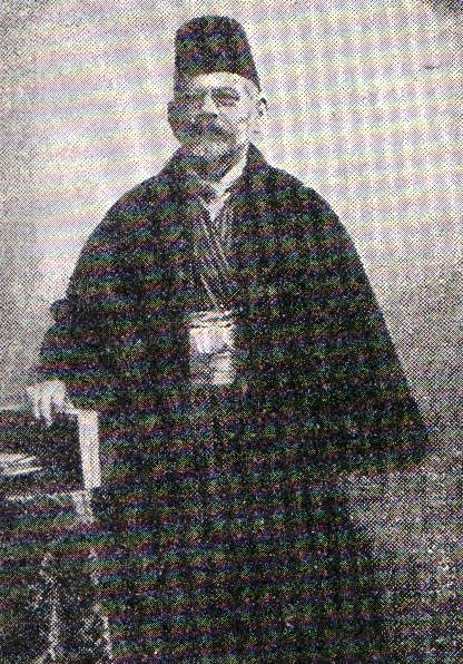 Moshe ben Rafael Attias, also known as Moshe Rafajlovic and Zeki Effendi (Sarajevo, 1845 – 2 July 1916), was a Bosnian Jew who became a scholar of the Islamic faith and of medieval Persian literature